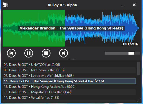 Screenshot of Nulloy audio player, with waveform as a seekbar.